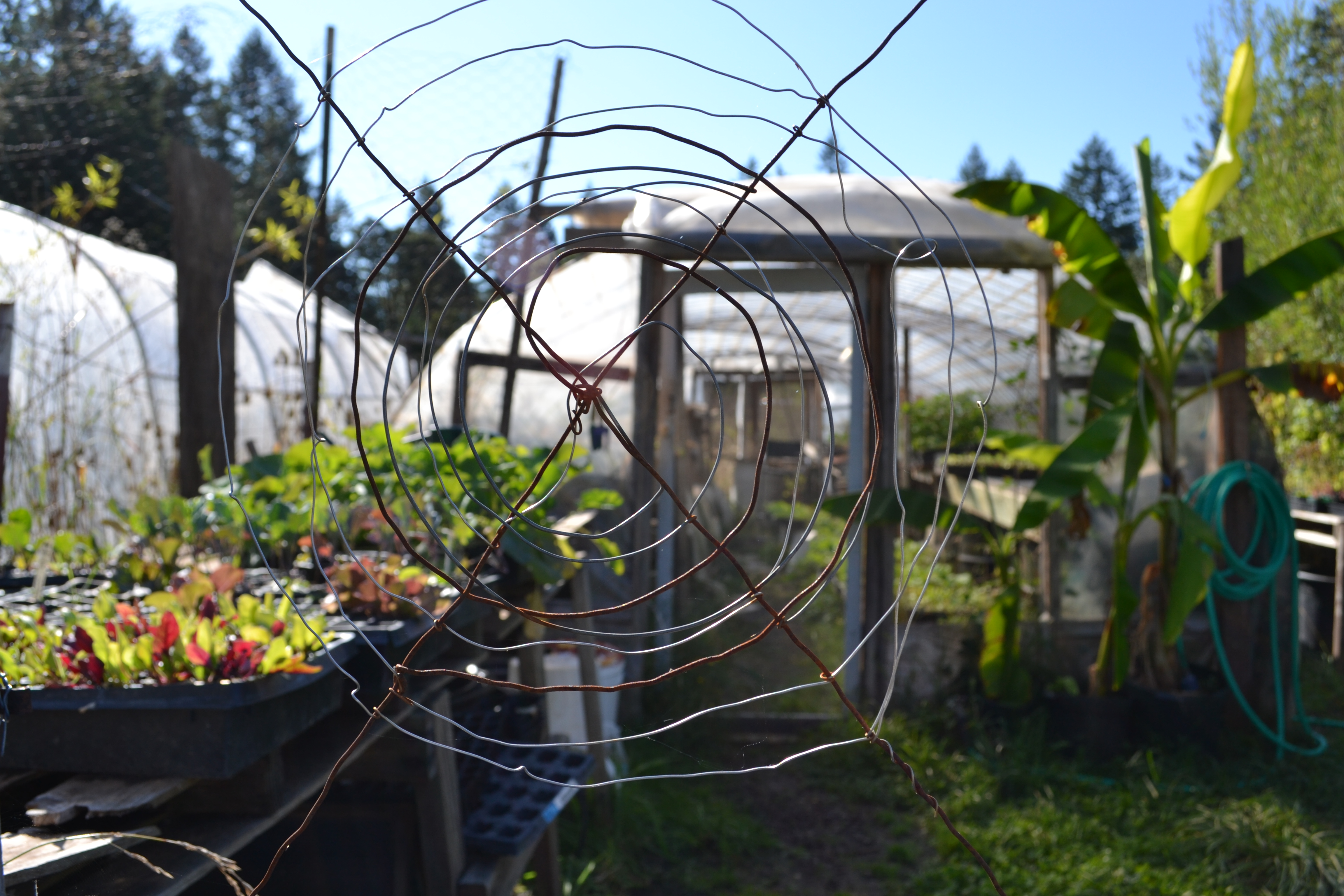 One of the many greenhouses